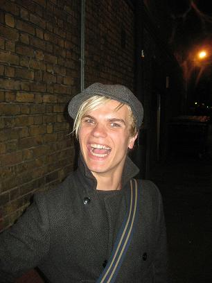 Steve Forrest (Placebo)